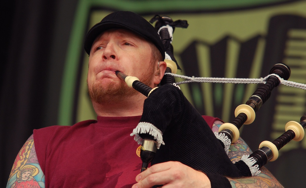 Dropkick Murphys at the 2011 Cisco Ottawa Bluesfest. By: Brennan Schnell